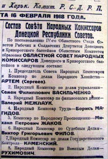 SNK DKR (in febr. 1918).